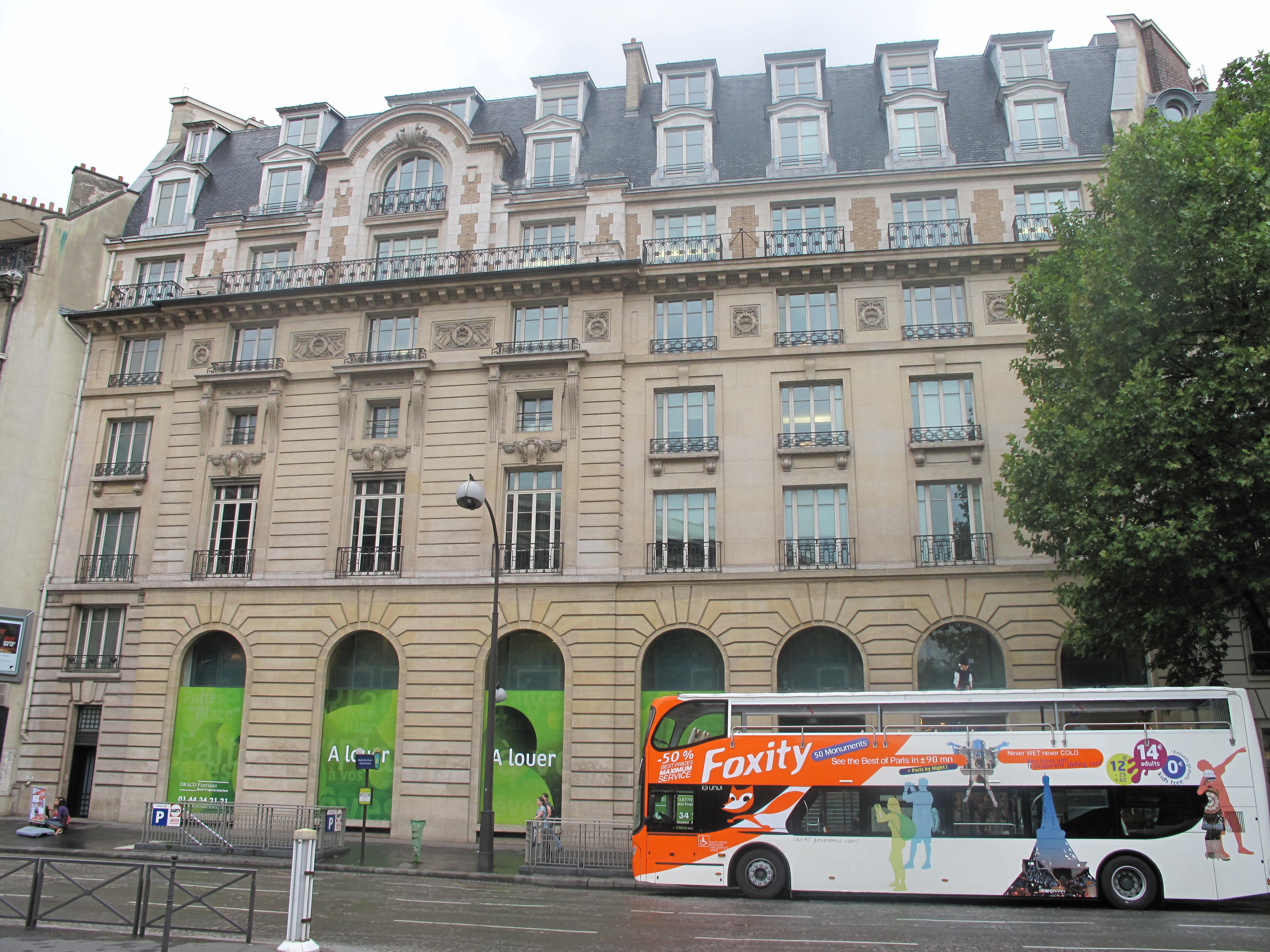 Building 3 boulevard Malesherbes, HQ of the former French airline UTA, Paris 8th arr.